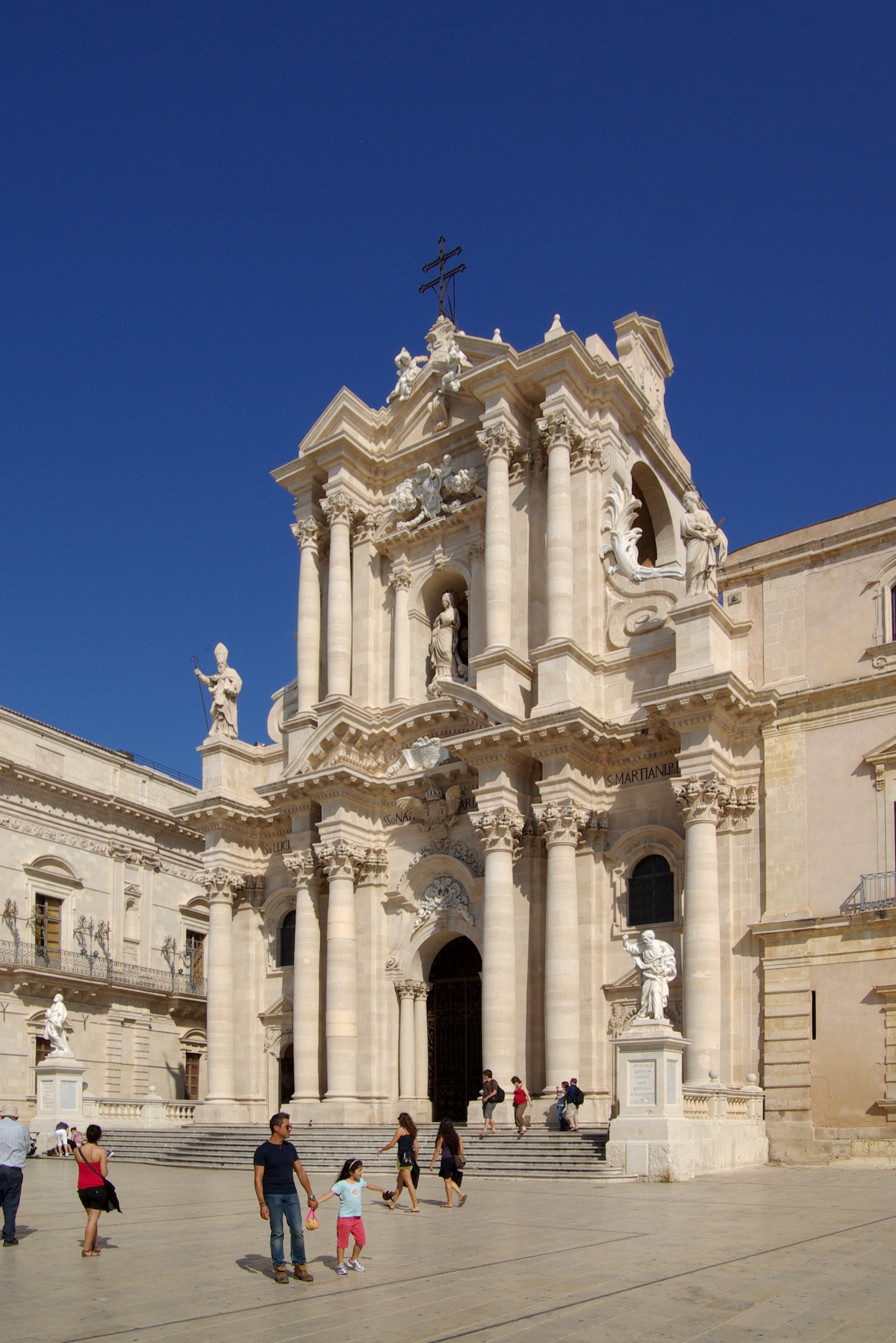 Italy, Sicily, Syracuse, cathedral Santa Maria delle Colonne